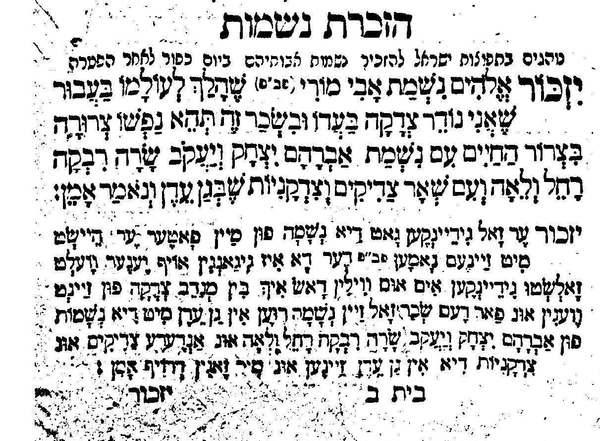 Yizkor prayer in prayer book from 1876